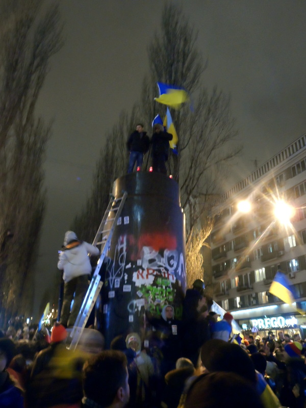 Demonstrators on the plinth of the demolished statue of Lenin in Kyiv, 8.12.2013